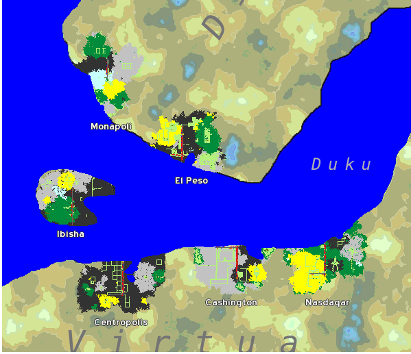 The new, updated map